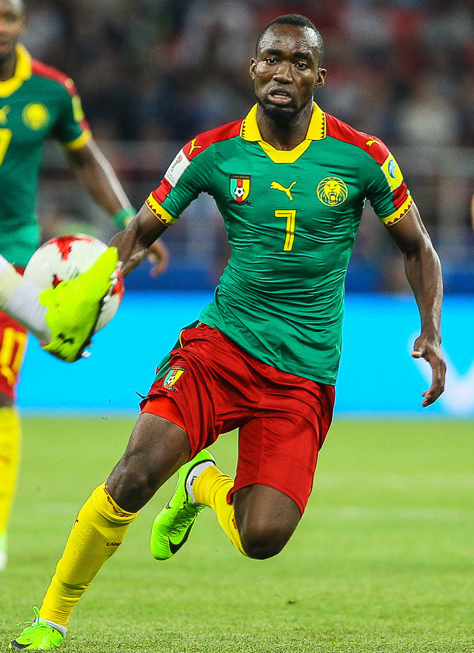 Cameroon vs Chile (0-2). FIFA Confederations Cup 2017